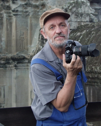 Photographer Jaroslav Poncar in Angkor Wat, Cambodia.